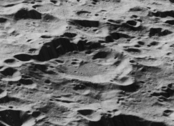 Oblique view of Volterra crater, on the far side of the moon, facing west